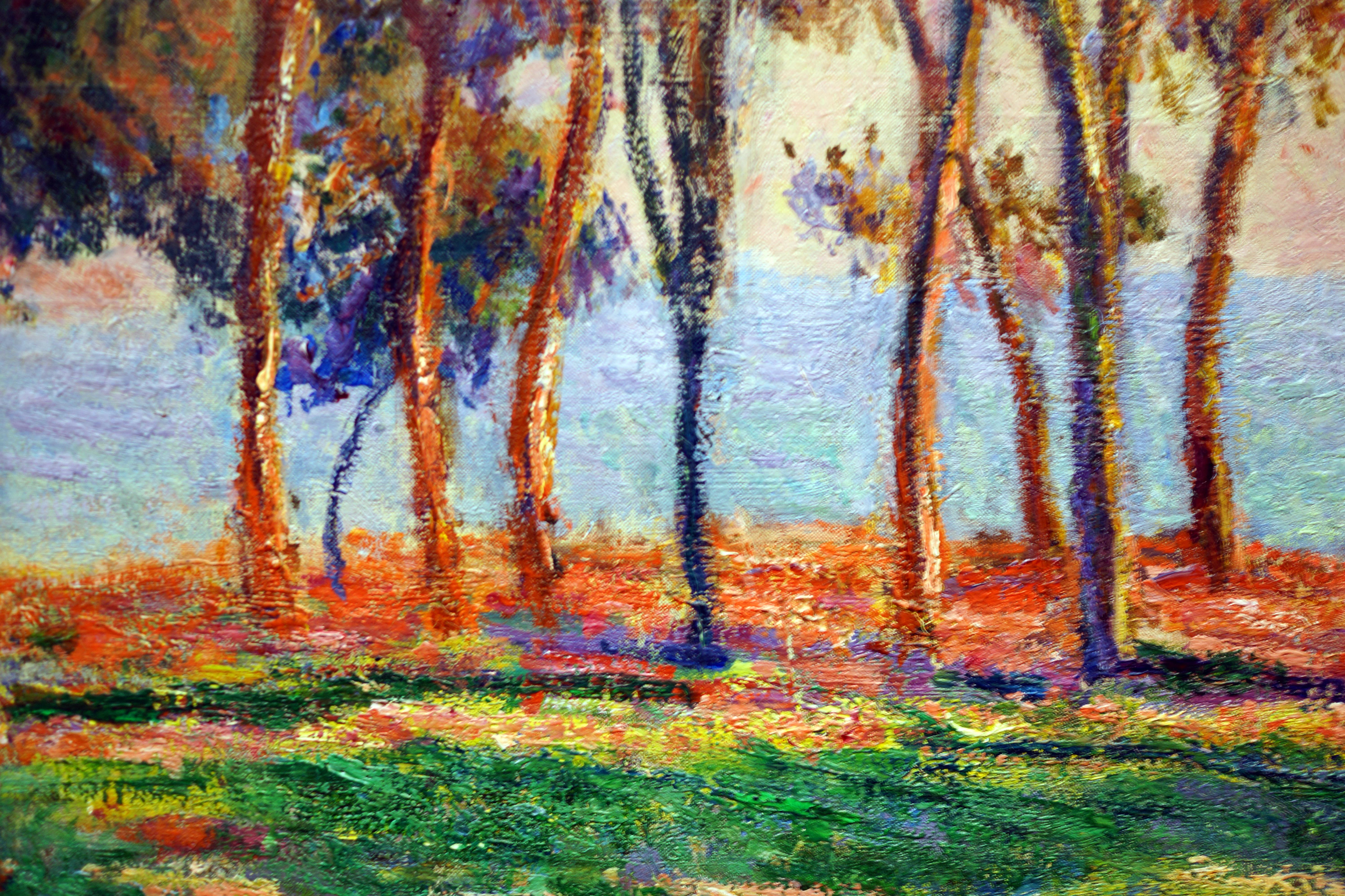 Claude Monet French 1840 – 1926 Under the Pines, Evening , 1888 Oil on canvas . Gift of F. Otto Haas, and partial gift of the reserved life interest of Carole Haas Gravagno, 1993-151-1 From the placard: Philadelphia Museum of Art Id 746 . .